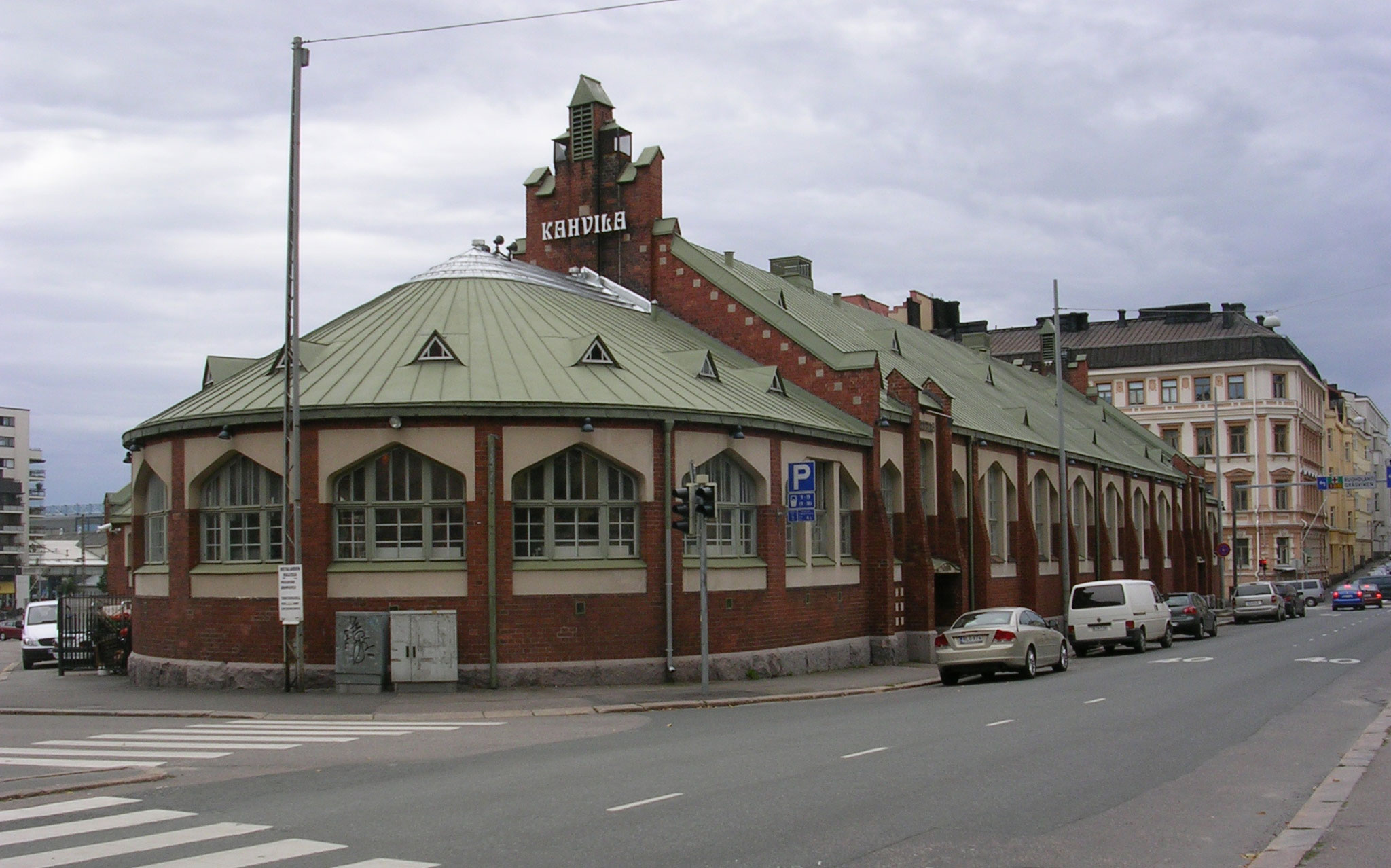 Hietalahti Market Hall, Helsinki. Architect Selim A. Lindqvist 1903.